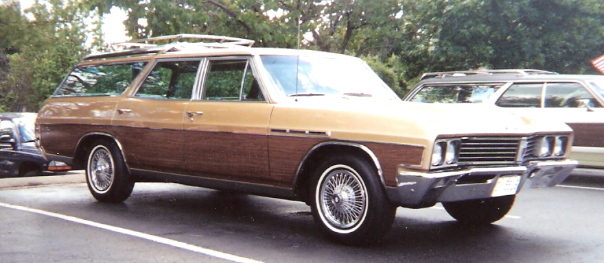 1967 Buick Sport Wagon I photographed in Nashville, Tennessee in June 2002.